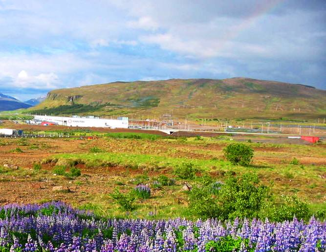 View over the mountain Úlfarsfell in Reykjavik, Iceland. Shopping center Korputorg is at the approaches to the mountain.